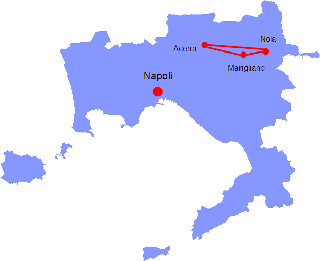 The triangle Acerra-Nola-Marigliano, cited as "Italian death triangle" according to the article: The Lancet Oncology, vol. 5, n. 9, September 2004, pag. 525-527, Italian “Triangle of death” linked to waste crisis